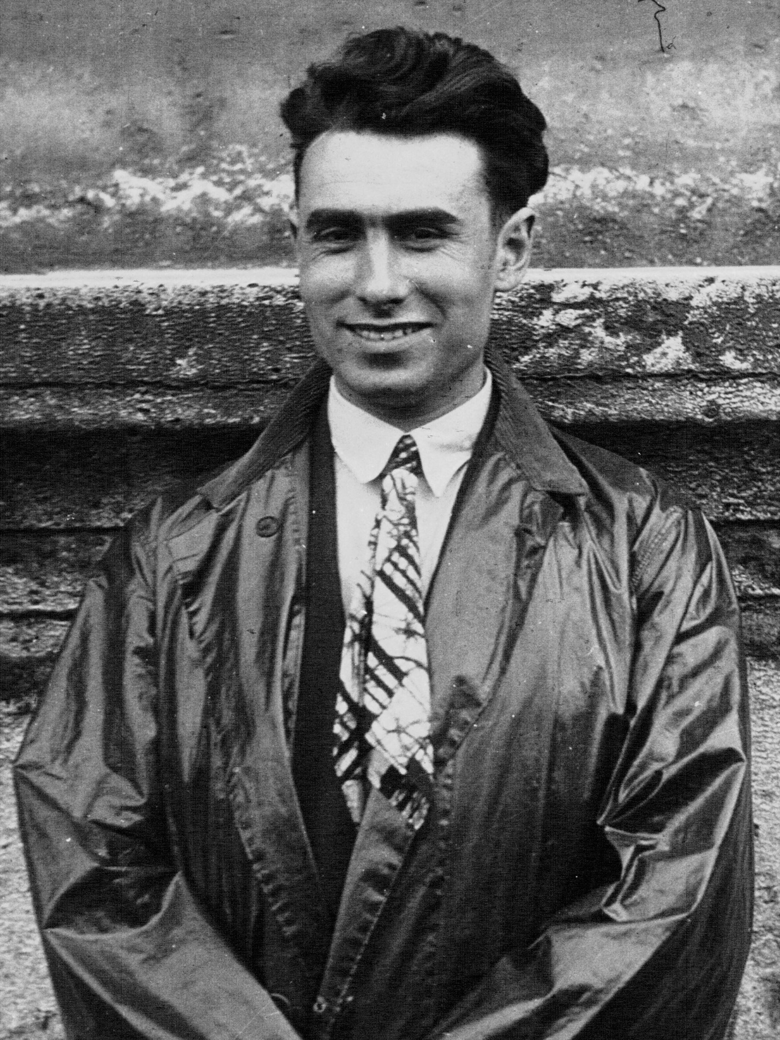 French sculptor Louis Leygue (1900-1992).